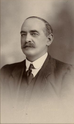 John Earle 22nd Premier of Tasmania (15 November 1865 – 6 February 1932)